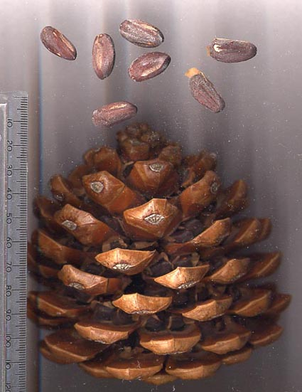 Pinus pinea (Stone Pine) cone with pine nuts